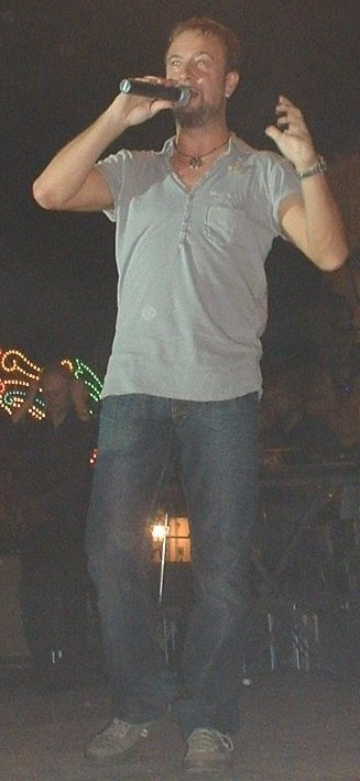 Marco Masini in concert at Solarino, Syracuse, Italy